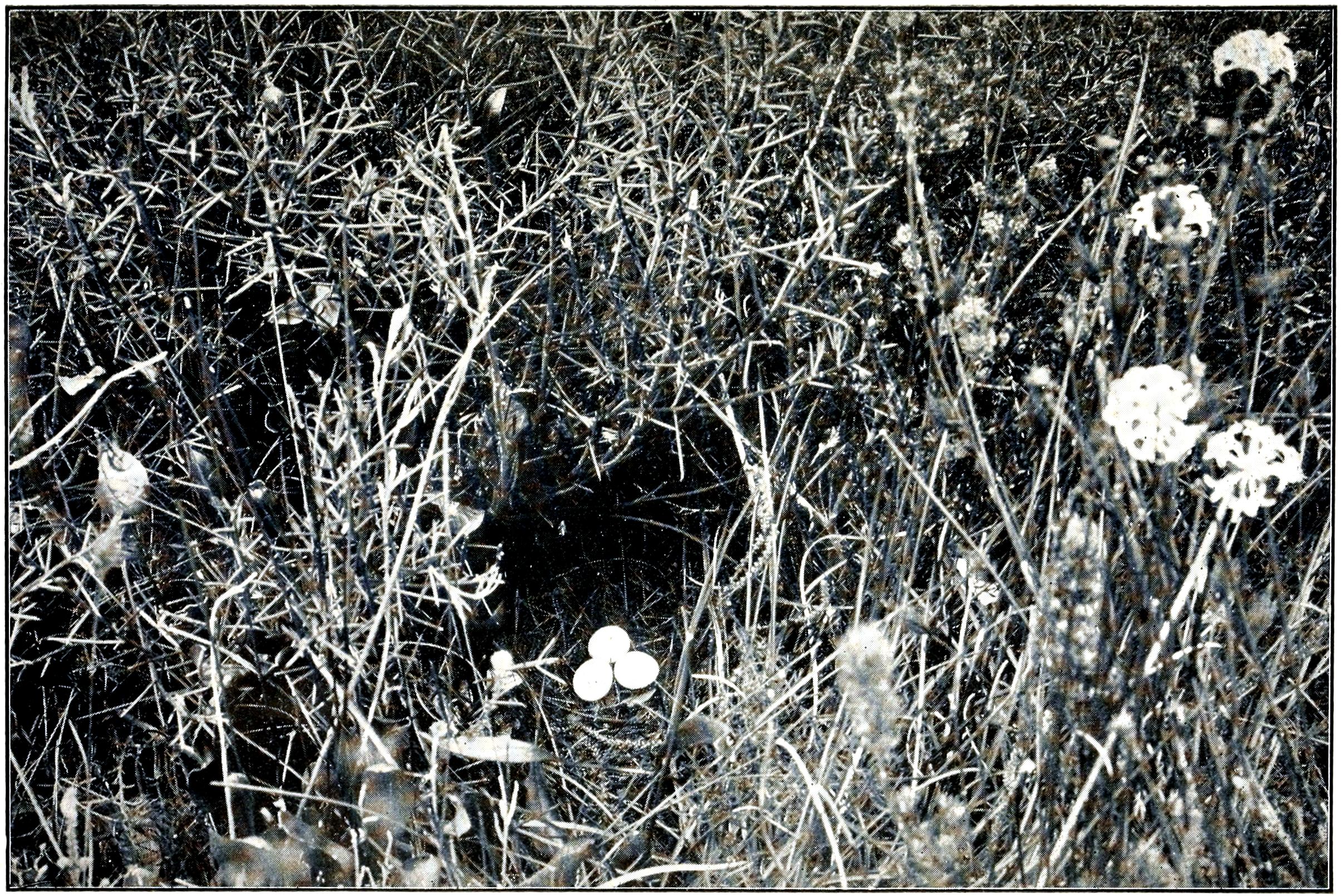 Plate 21 of The Emu an ornithological journal, illustrating Whitlock, F. Lawson (1913). "Spotless Crake and Western Ground-parrot". Emu. 13 (4): 202–05. , depicting